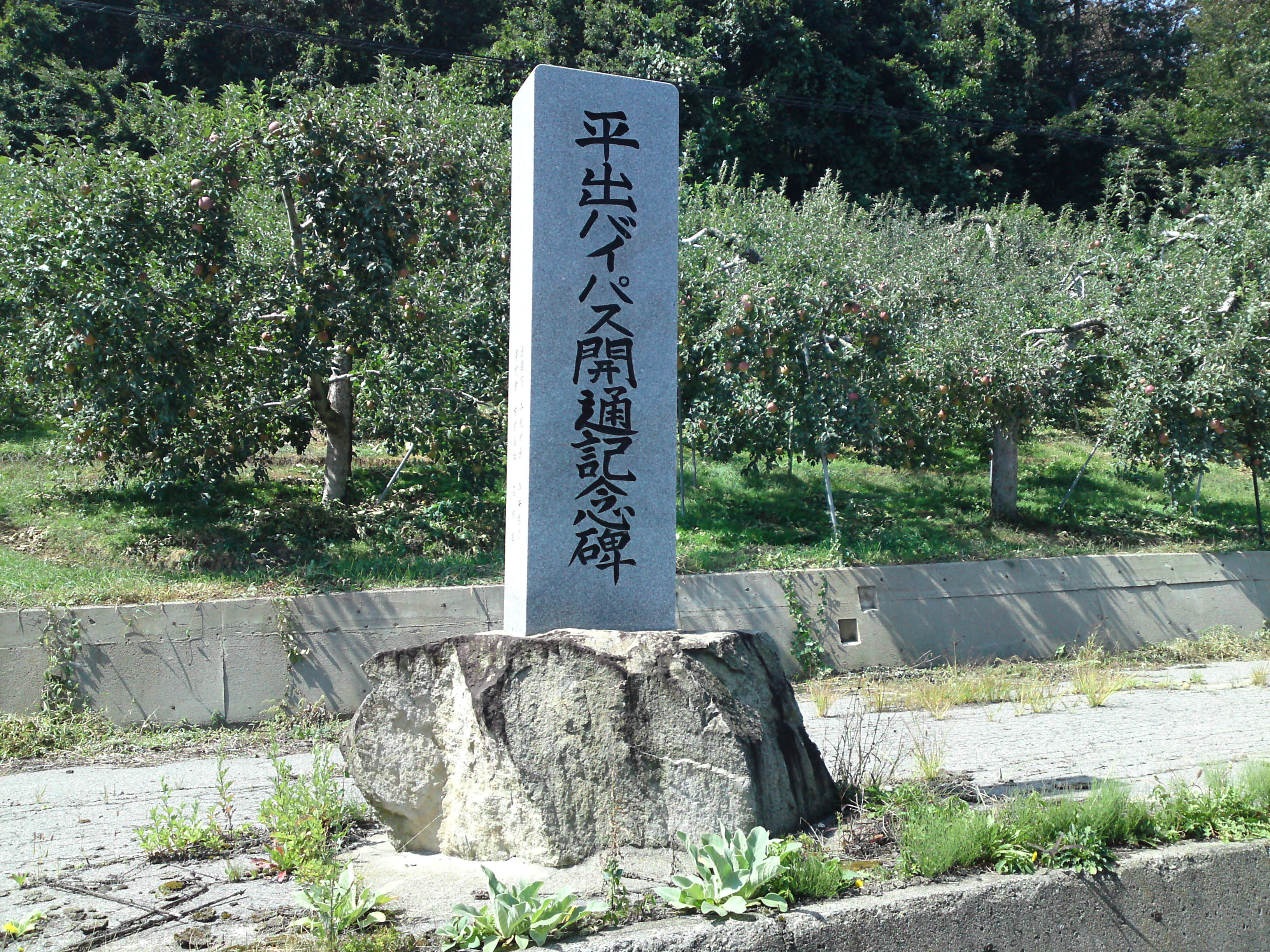 The monument of the Hiraide By-pass, Iizuna, Nagano, Japan